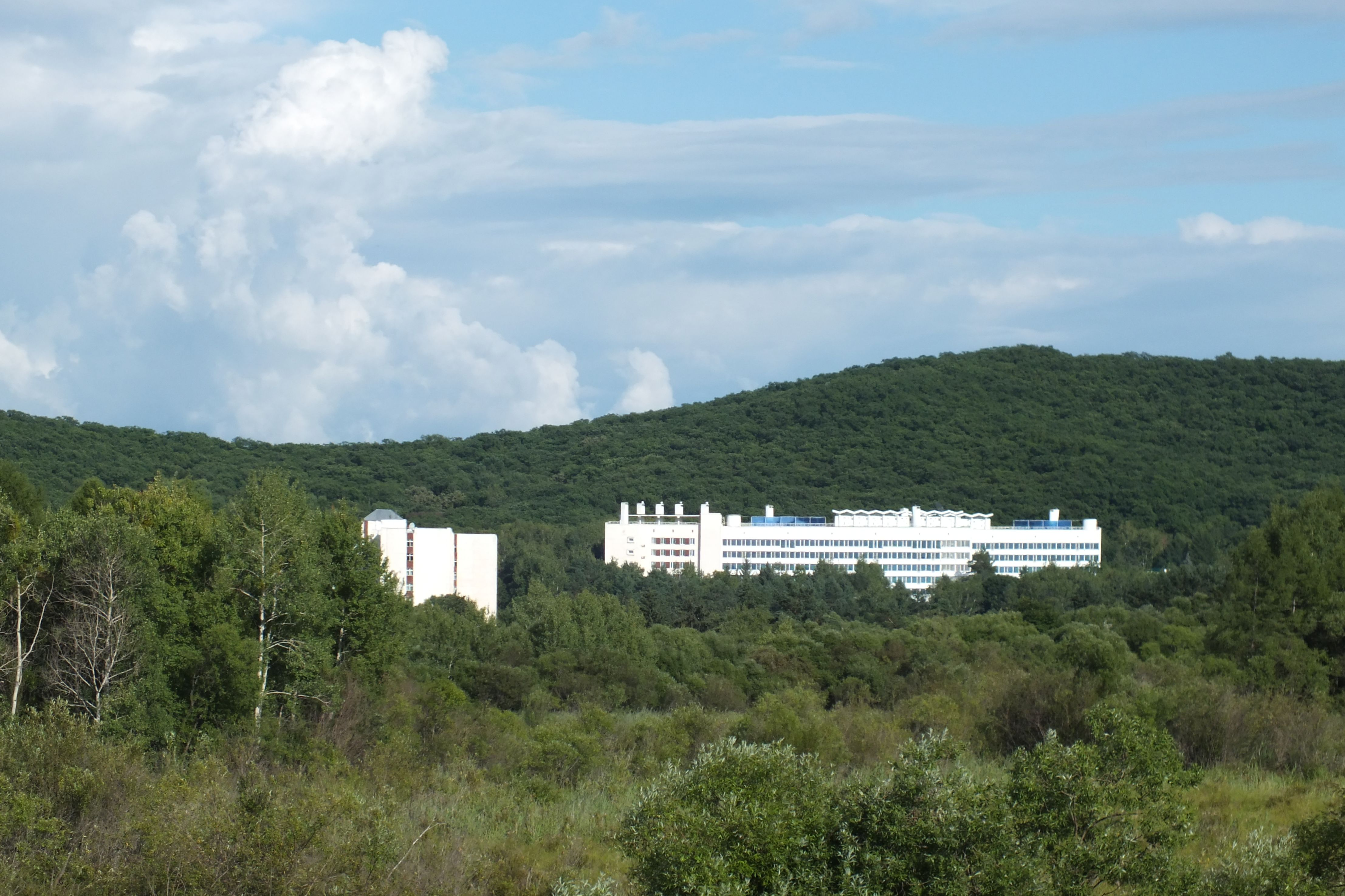 Gornyye Klyuchi settlement. View from road to sanatorium